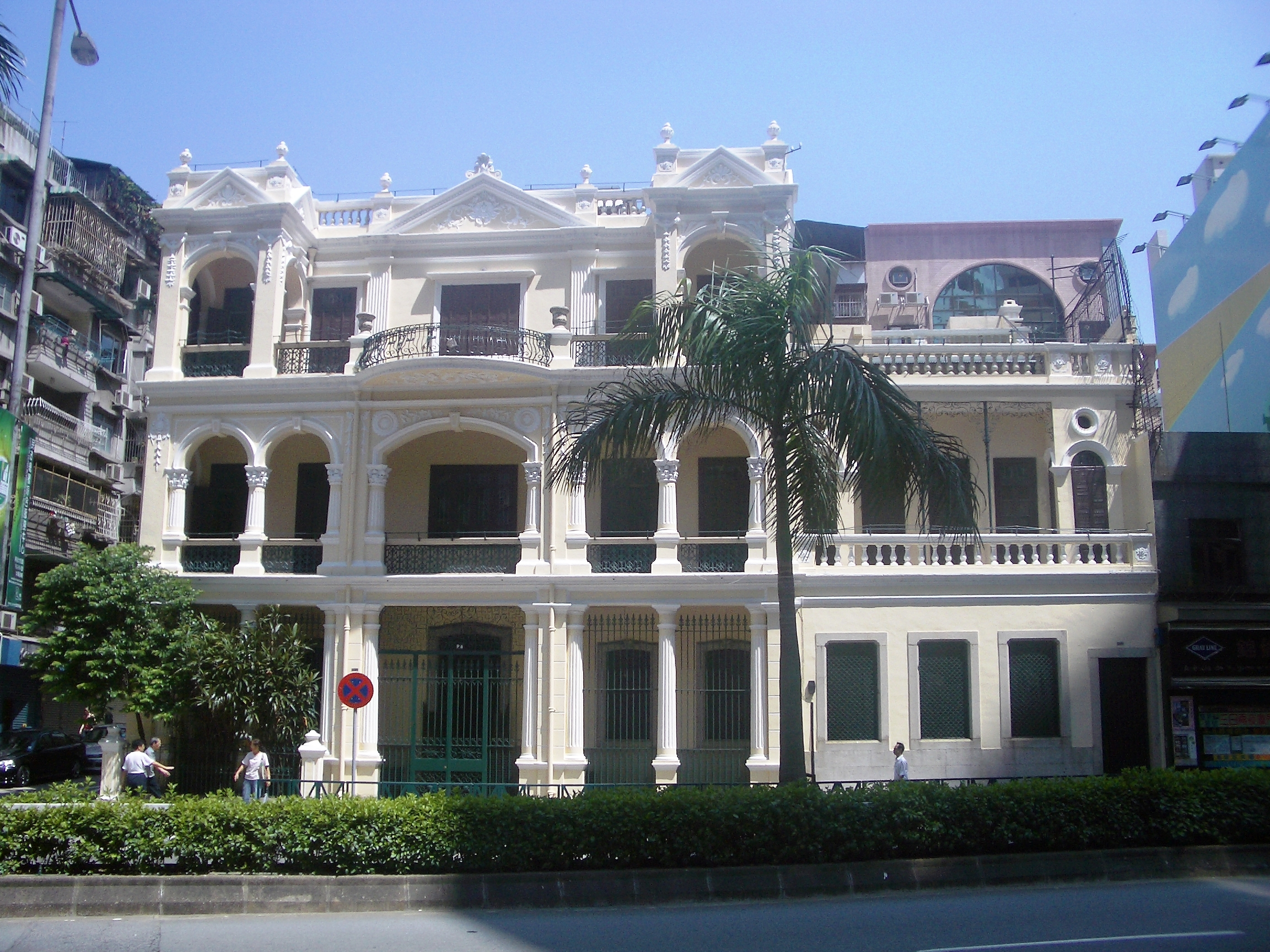 Mansion of Ko Ho Neng, an early Macao tycoon in gambling industry